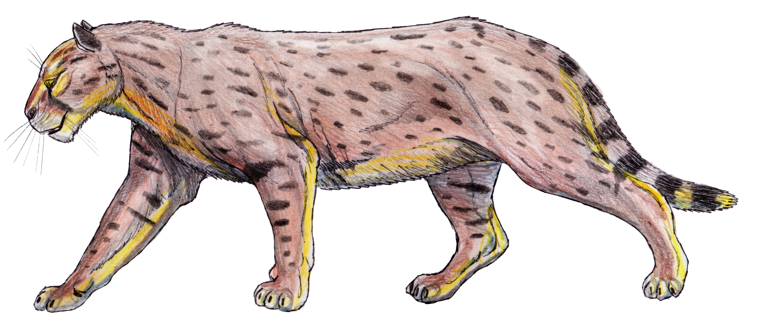 Dinofelis barlowi, from the Early Pliocene to the late Pleistocene of North Hemisphere